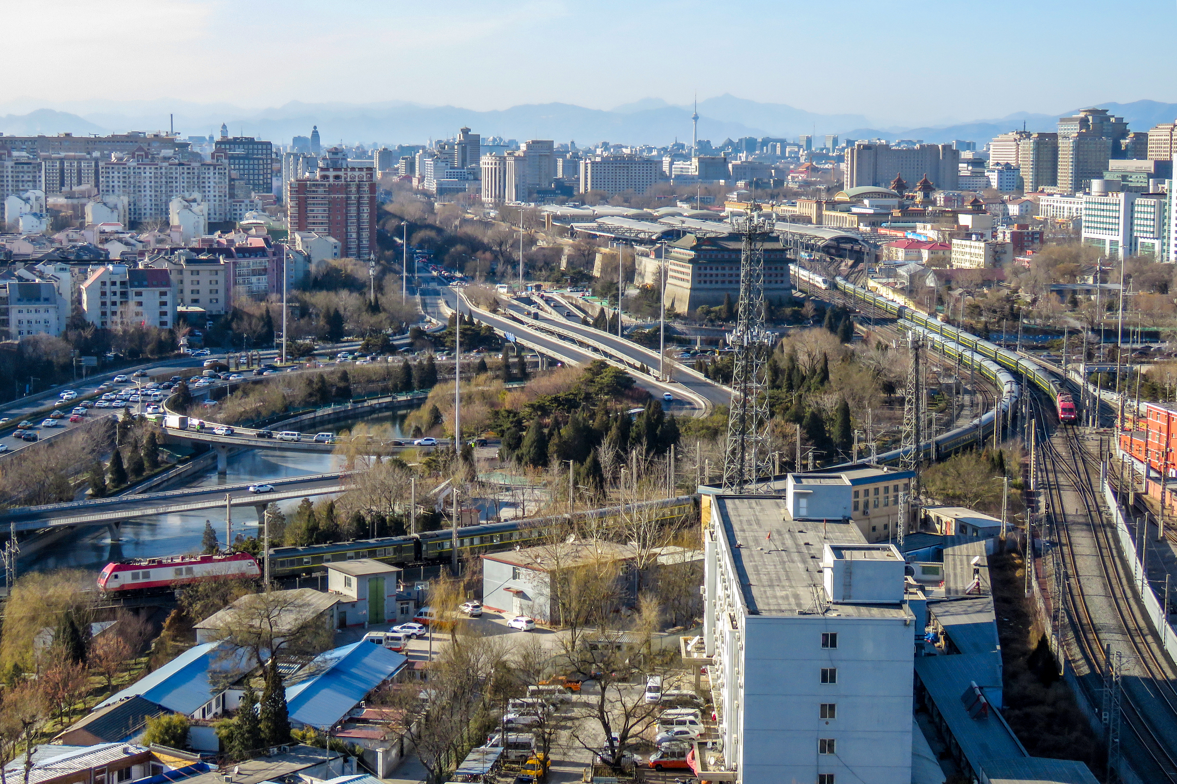 K497 to Jagaqi, hauled by SS9G-0109 on Beijing-Harbin Railway (right); and T39 to Qiqihar, hauled by SS9G-0060 on Beijing-Shanghai Railway (left).